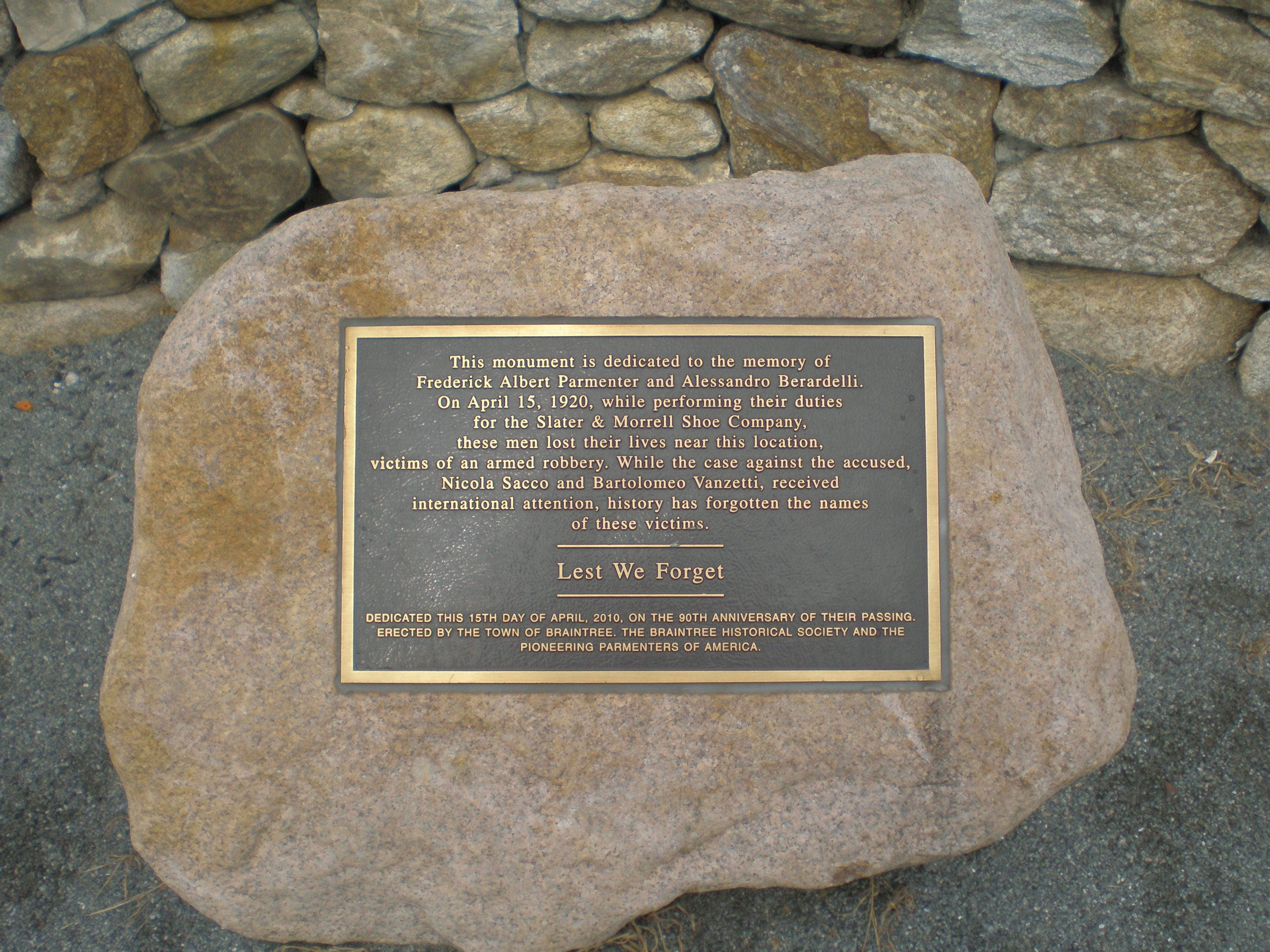 Memorial plaque for Frederick Parmenter and Alessandro Berardelli, victims of an April 15, 1920 robbery in Braintree, Massachusetts, USA. Nicola Sacco and Bartolomeo Vanzetti were arrested and charged with the murders. They were subsequently convicted in a controversial trial and then executed despite global pleas for a new trial.